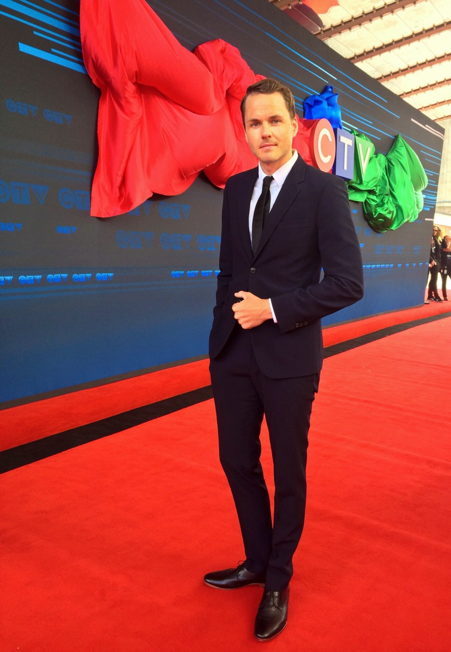 An image of Paul Campbell on the red carpet at the CTV Upfront 2014 event.